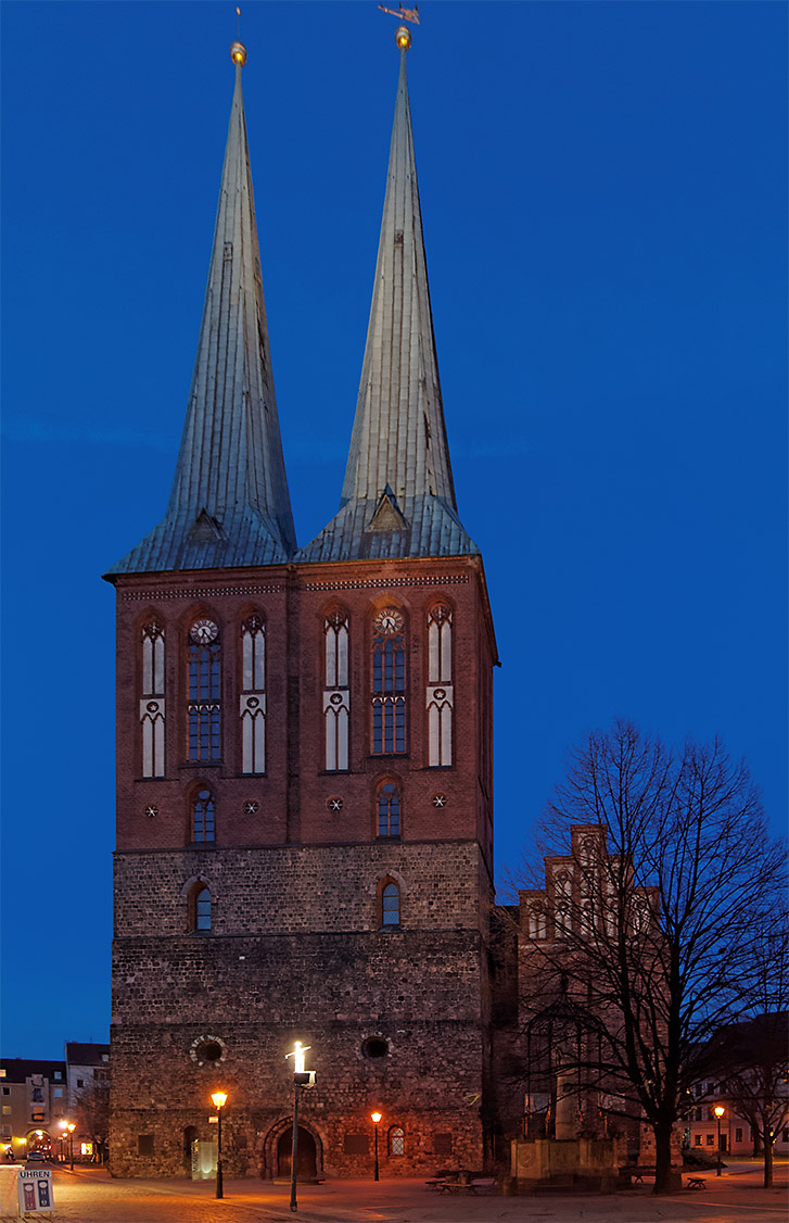 Church of St. Nicholas in Berlin, Germany, buildt in 1230. (O3059140-Dv3) This is a photograph of an architectural monument.